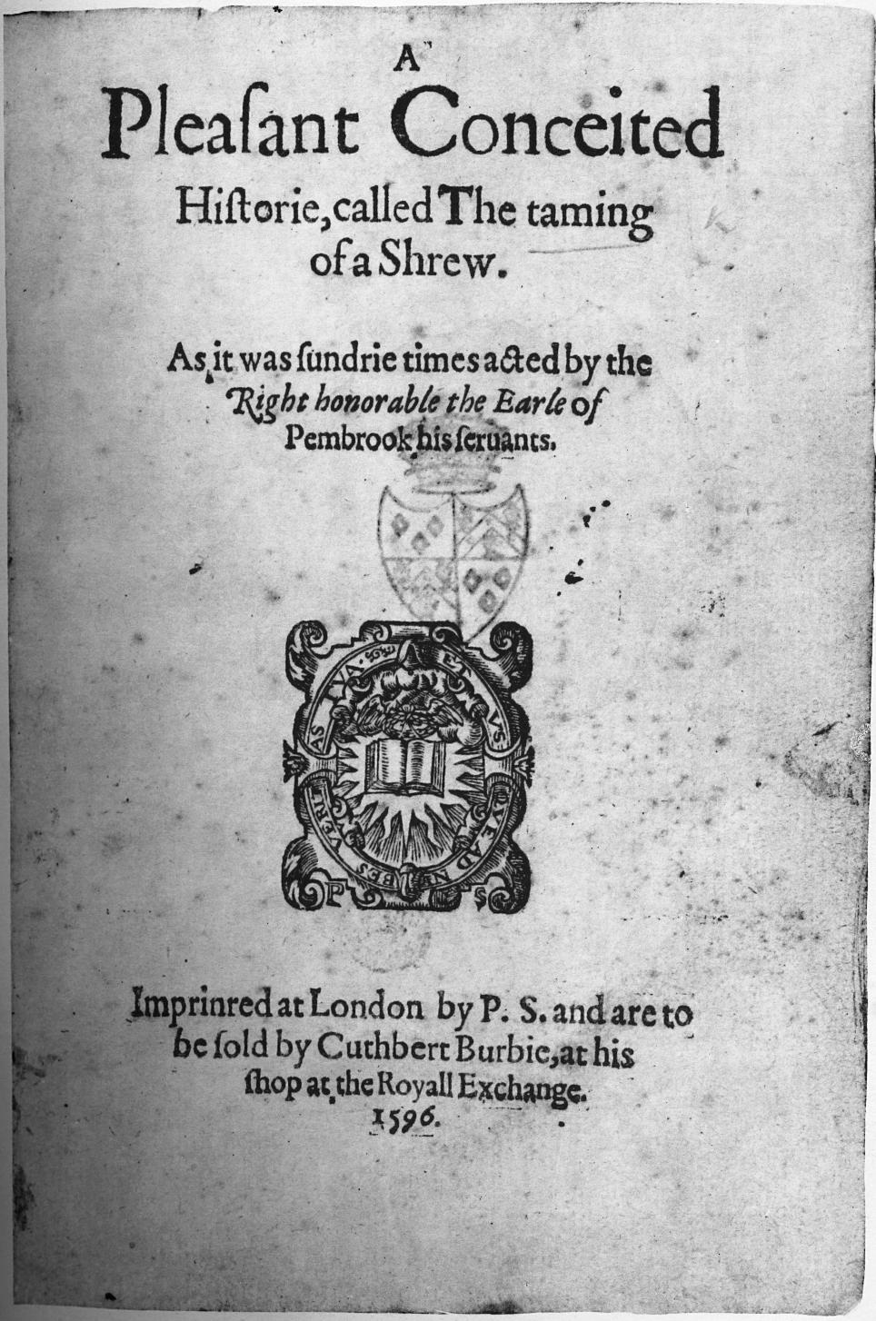 Title page of second edition of A Pleasant Conceited Historie, called The taming of a Shrew (1596)